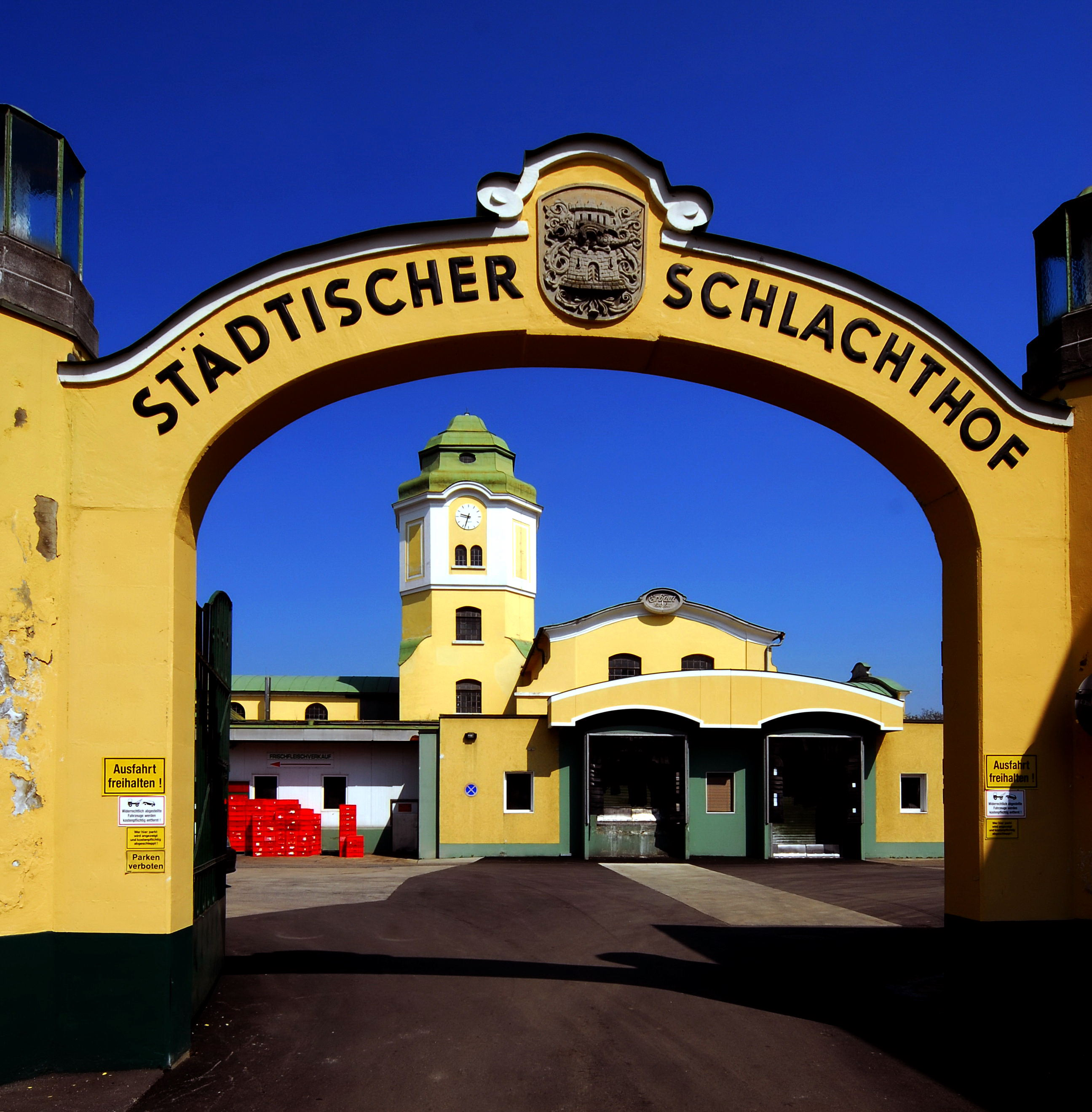 Urban slaughterhouse on the Schlachthofstrasse #7 in the 6th district "Völkermarkter Vorstadt" of Carinthian`s capital Klagenfurt on the Lake Woerth, Carinthia, Austria